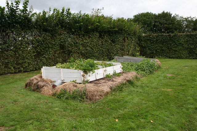 Hot Beds used by Gilbert White Gilbert White successfully grew melons in these hotbeds. A pit is dug and filled with fresh horse manure, on top of which is a foot or so of good loamy soil. The manure ferments and produces a high temperature which aids the germination of the seeds. If required, glass can also be placed across the frame.